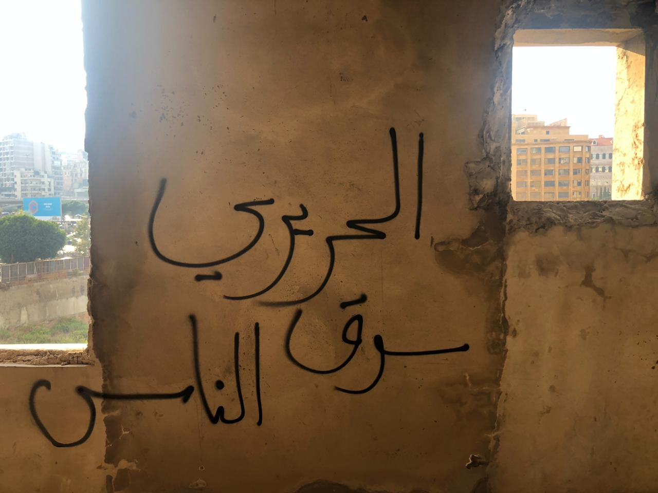 Beirut Protests 2019